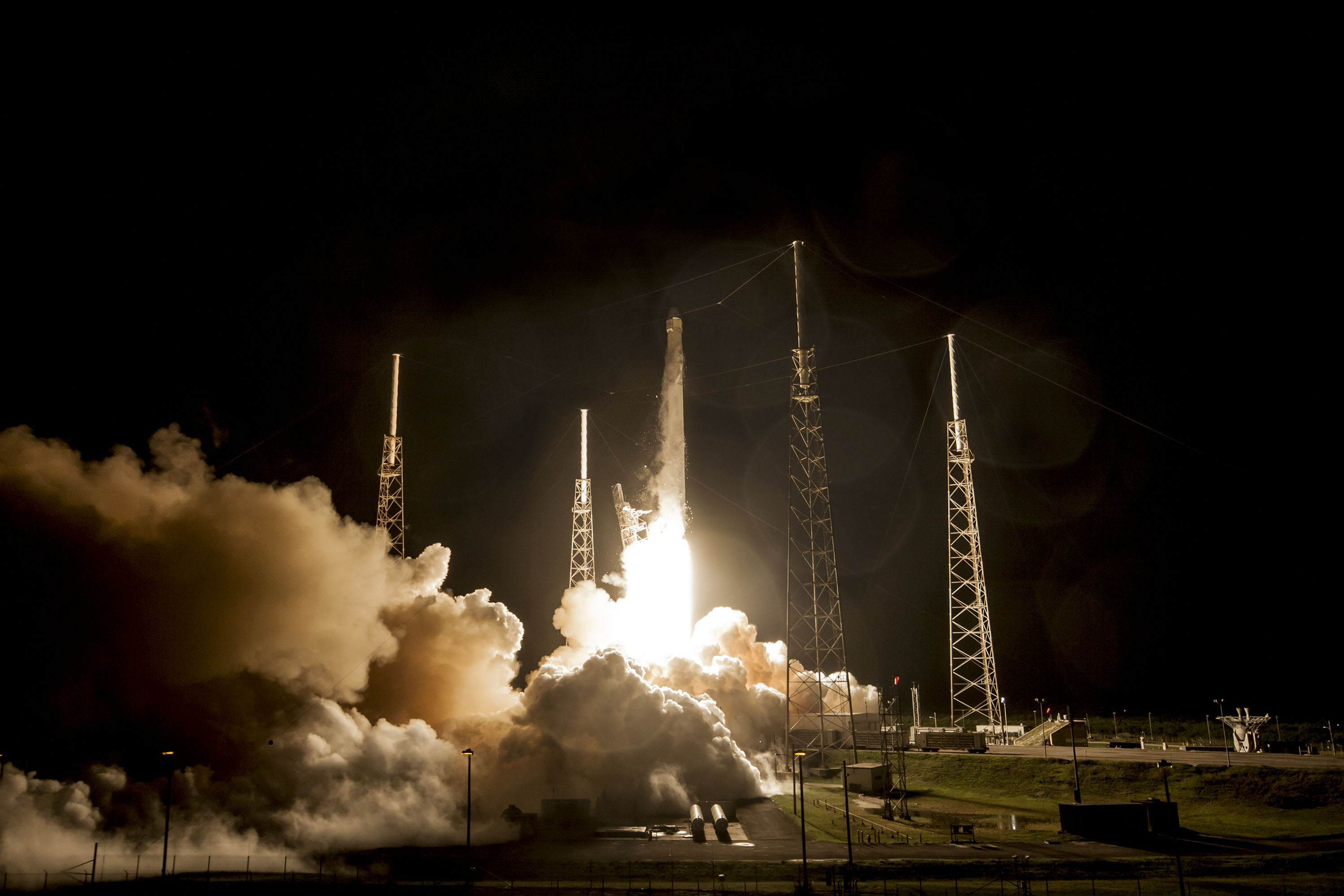 SpaceX’s Falcon 9 rocket and Dragon spacecraft launched from Launch Complex 40 at the Cape Canaveral Air Force Station, Florida, for their fourth official Commercial Resupply (CRS) mission to the orbiting lab on Sunday, September 21 at 1:52am EDT. Dragon returned to Earth with a parachute-assisted splashdown off the coast of southern California on October 25. Dragon is the only operational spacecraft capable of returning a significant amount of supplies back to Earth, including experiments.